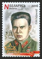 The beginning of the Great Patriotic War. The defence of Brest fortress. P. M. Gavrilov.